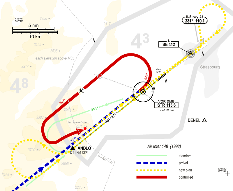 Air Inter 148, Airbus A320-111 airplane is crashed on January 20, 1992, at Mont Sainte-Odile, near to Barr and Strasbourg, France. The diagram is based on official accident report of Bureau d'enquêtes et d'analyses pour la sécurité de l'aviation civile (BEA), and air navigation charts.